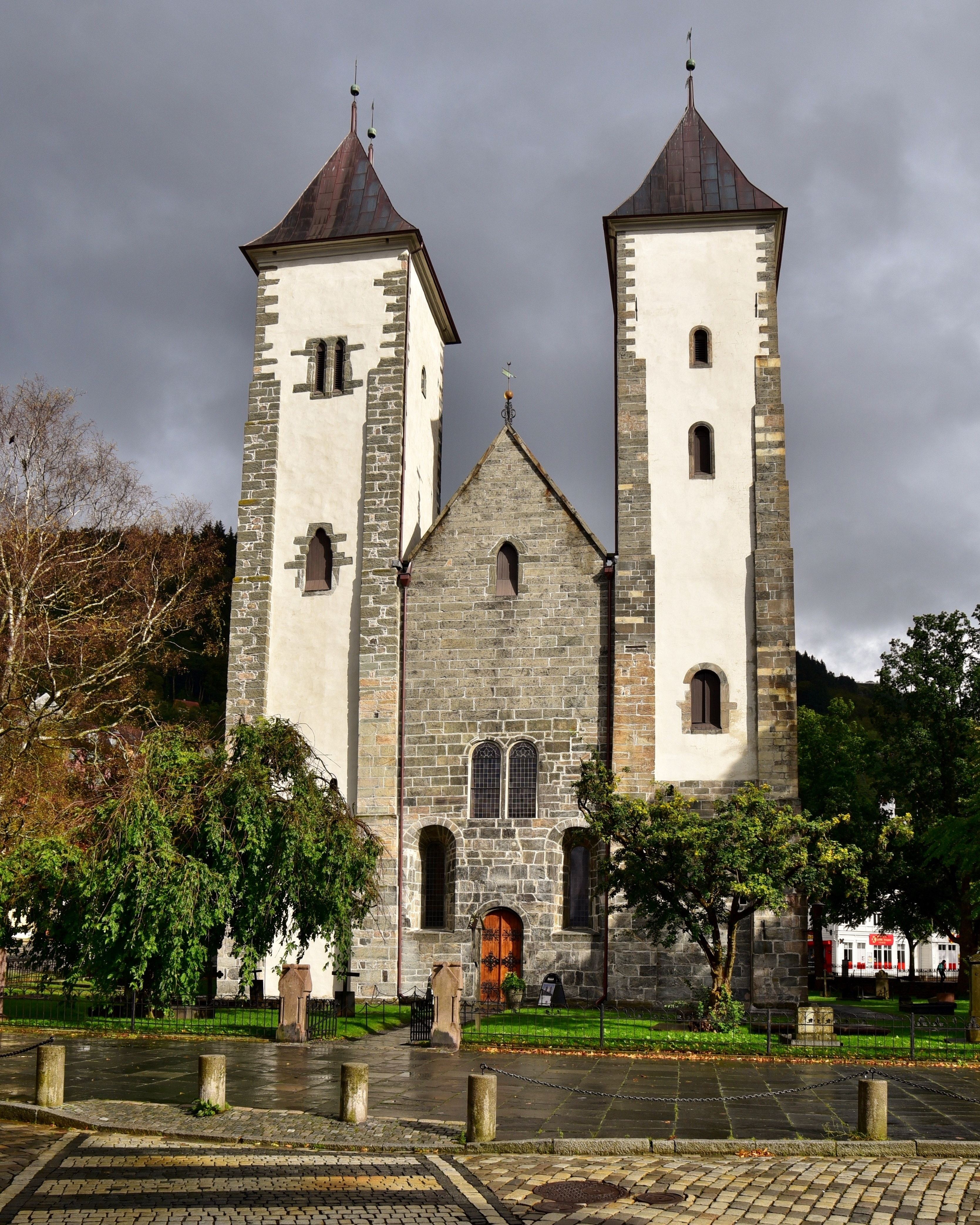 View of St Mary's Church, Bergen, Norway